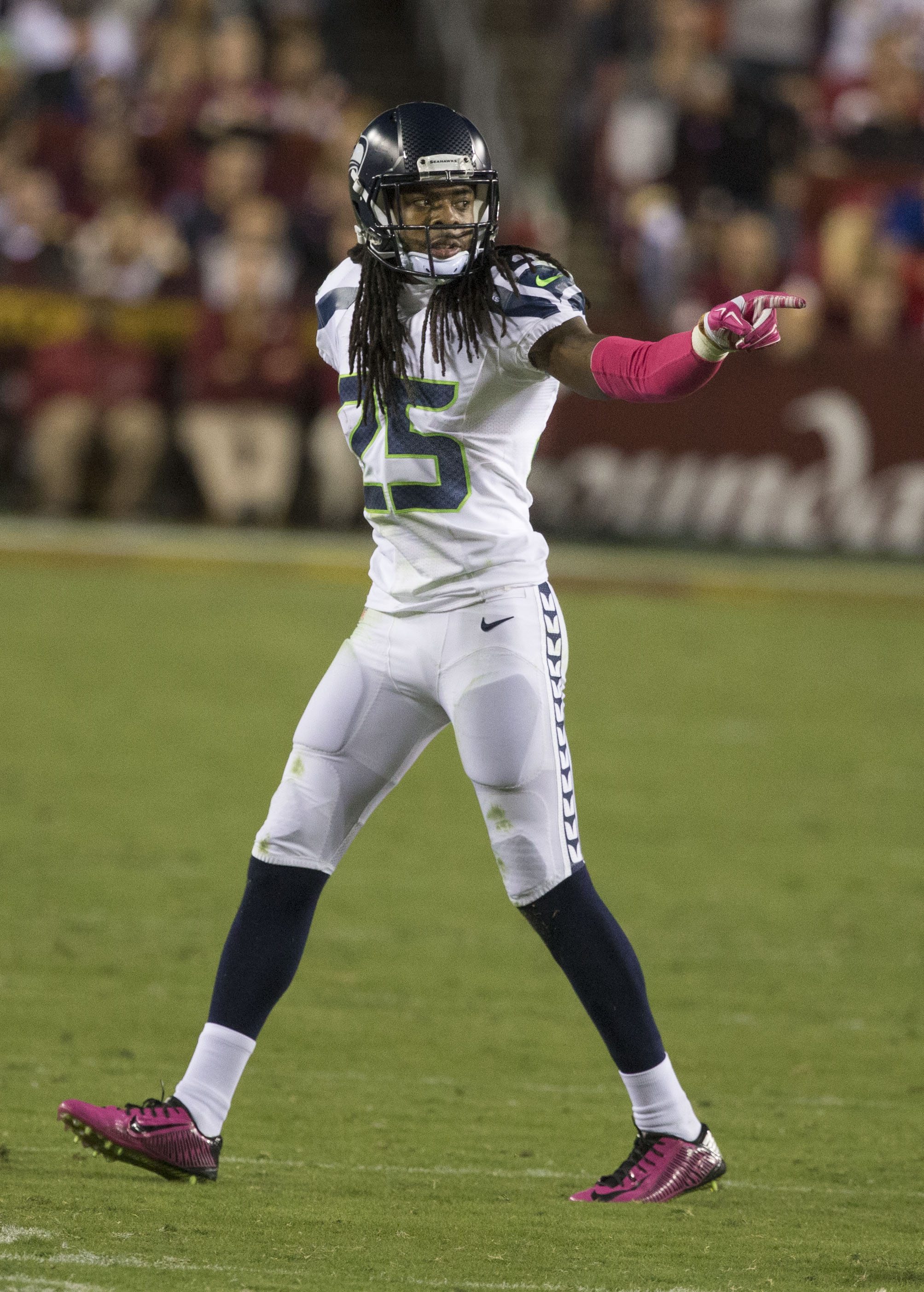 Seahawks at Redskins 10/6/14